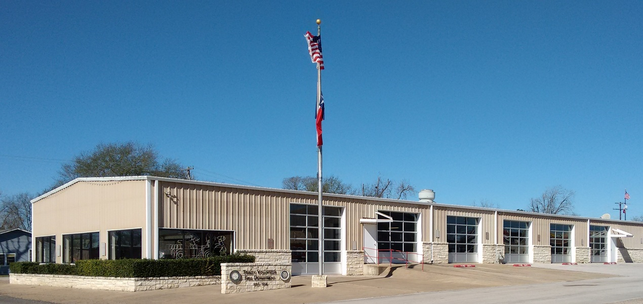 Trinity Municipal Building, housing the volunteer fire department, the police department and city hall. City organized February 14, 1914.